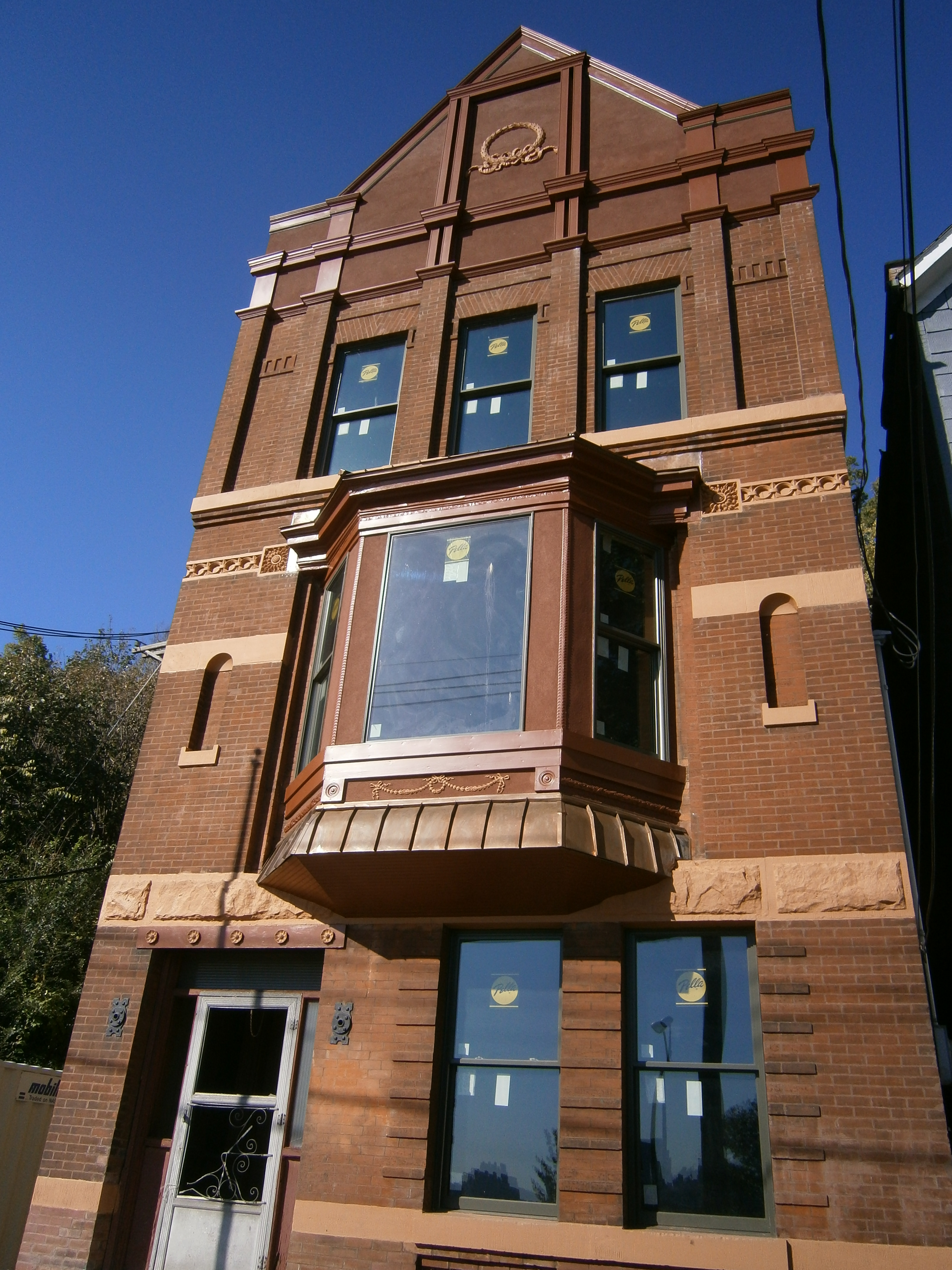 Weehawken Museum building undergoing renovation Oct 2011-Located at foot of Shippen Street steps